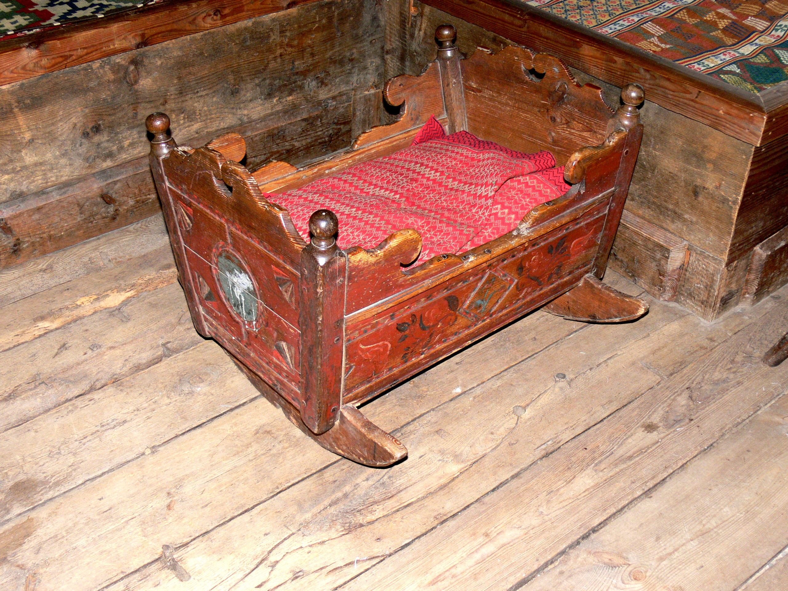 Open air museum Kulturen in Lund ( Sweden ). Rural life: Cradle.